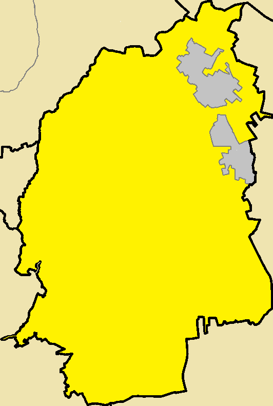 Agios Georgios in Latsia.